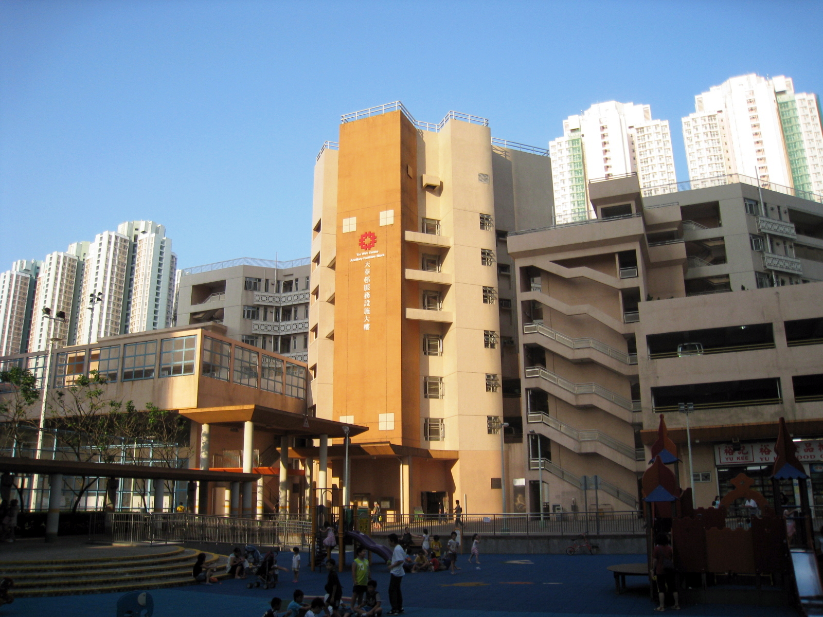 Tin Wah Estate Ancillary Facilities Block 天華邨服務設施大樓